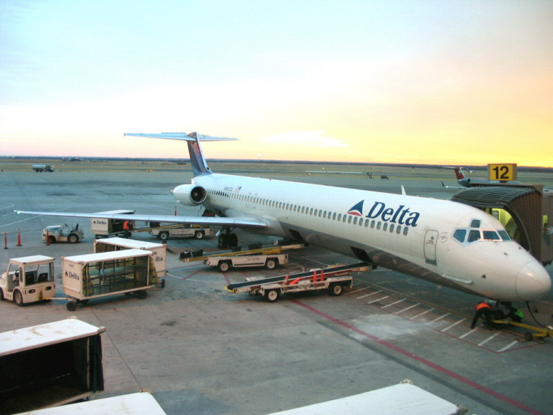 A Delta MD-80/90 aircraft in an airport.